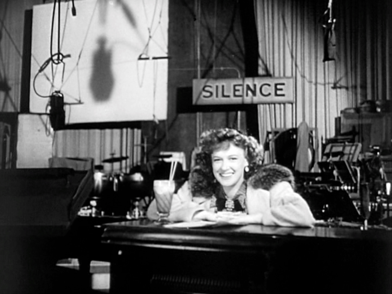 Screenshot of Dorothy Comingore from the Citizen Kane trailer